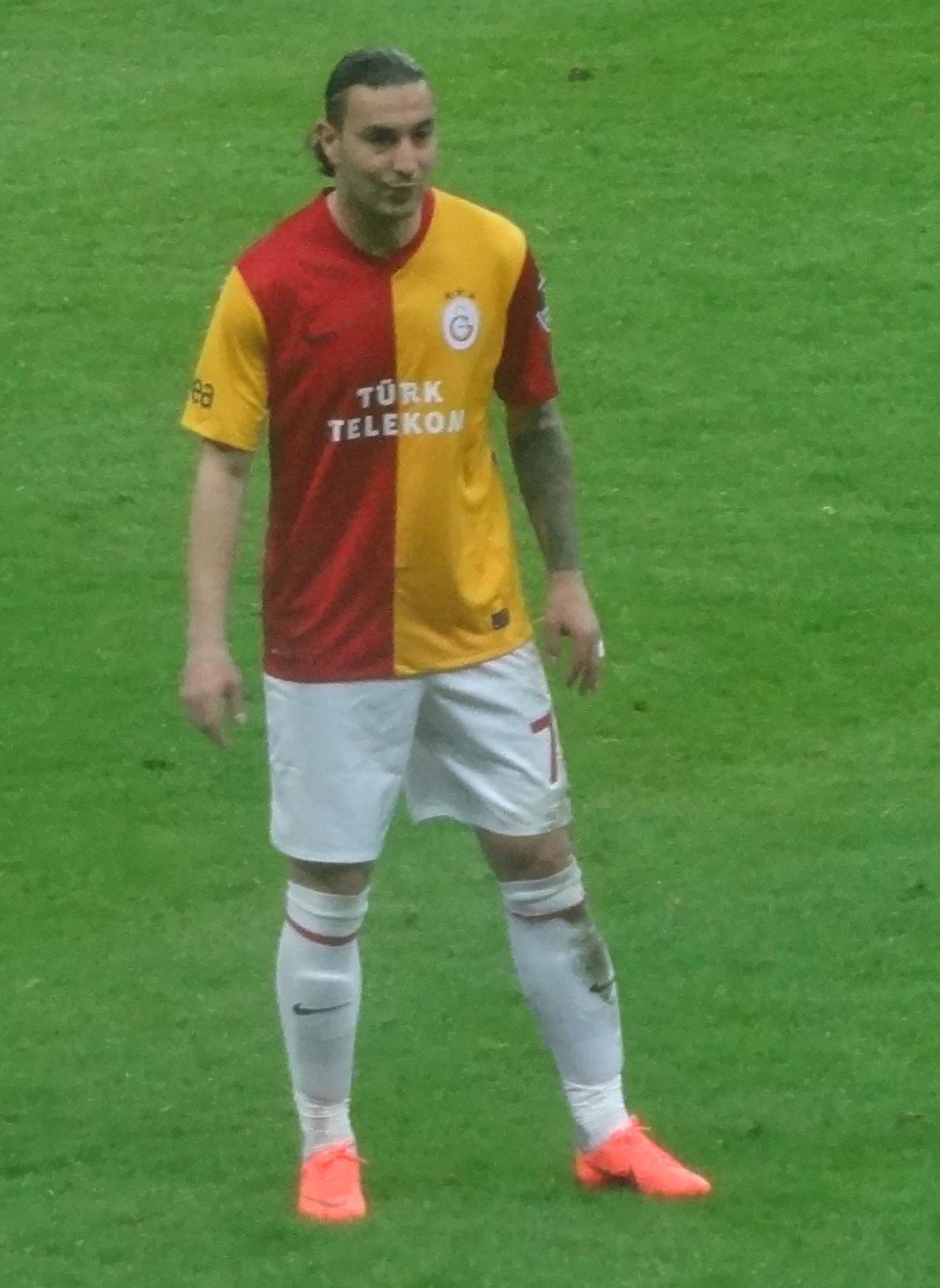 Necati playin against ordu